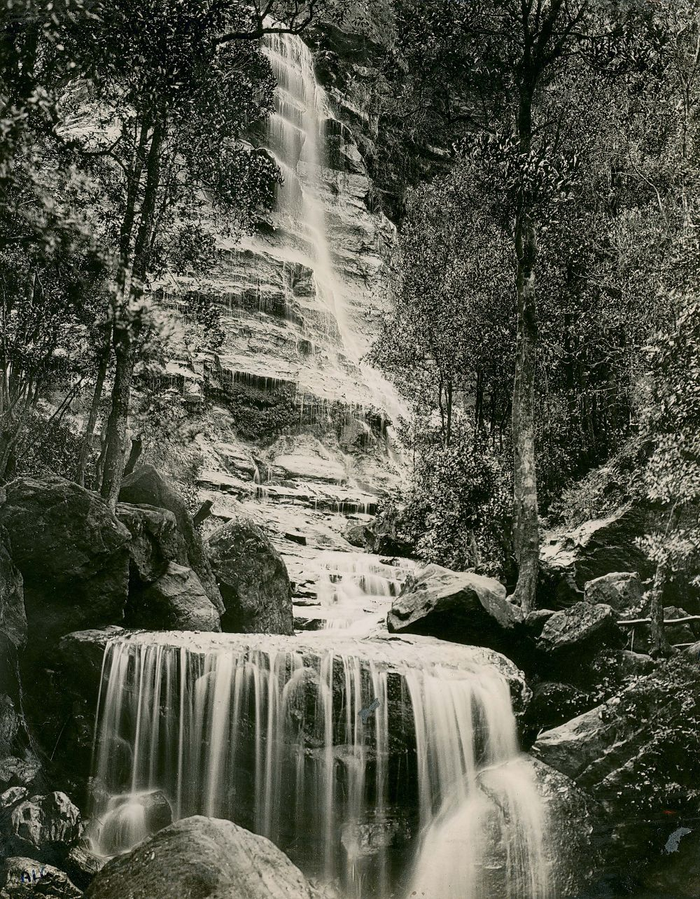 Bridal Veil Falls, Leura Dated: No date Digital ID: 12932_a012_a012X2445000026 Rights: We'd love to hear from you if you use our photos. Many other photos in our collection are available to view and browse on our website using Photo Investigator.